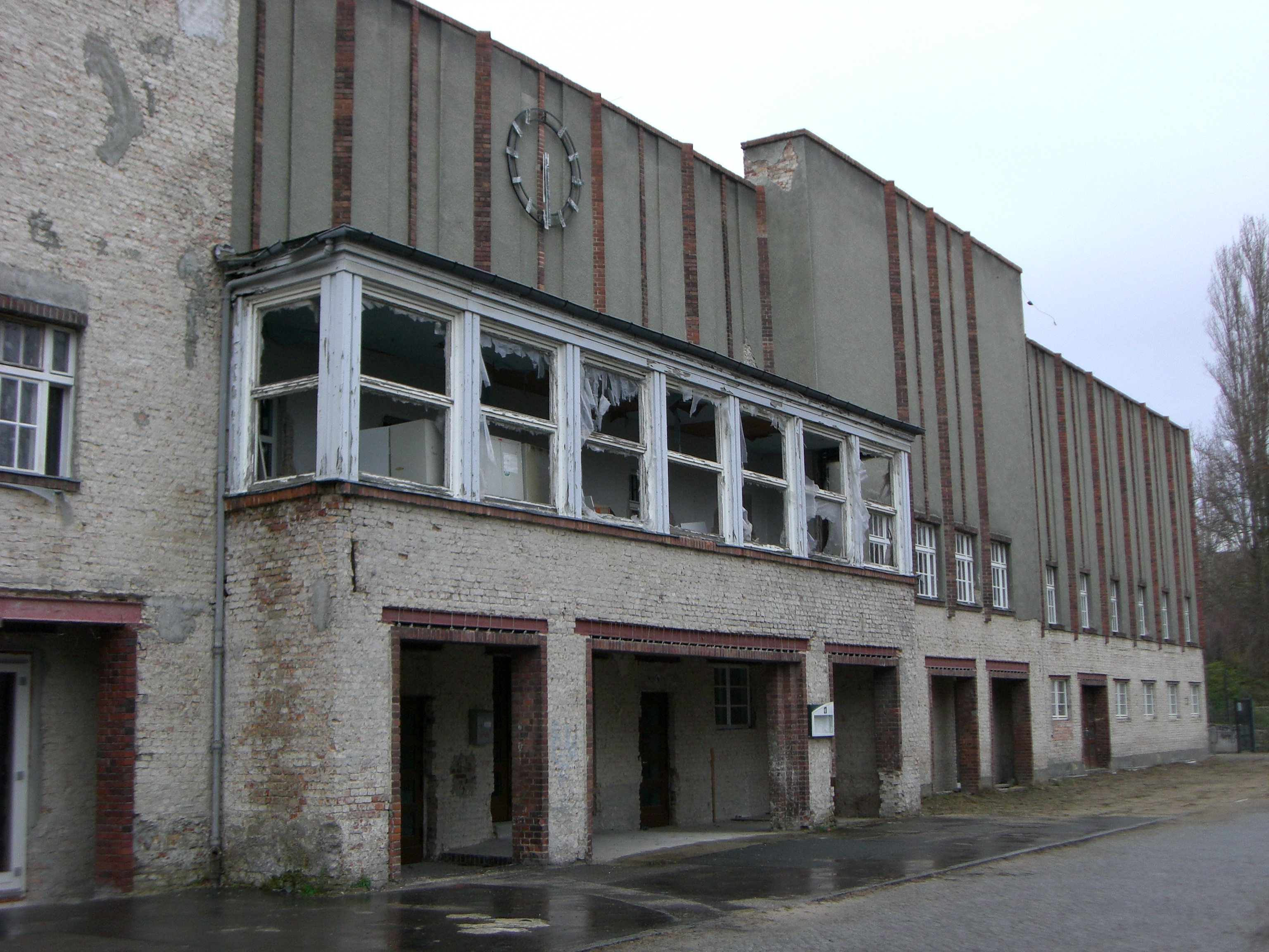 Back of the main stand of Post Stadium in Berlin as of Dec. 2007. The stadium was used for 1936 Olympic football matches, served as the venue for the 1934 German Championship Final (Schalke vs. Nuremberg, 2-0) and after the war as the stadium of Tennis Borussia Berlin, among other clubs.